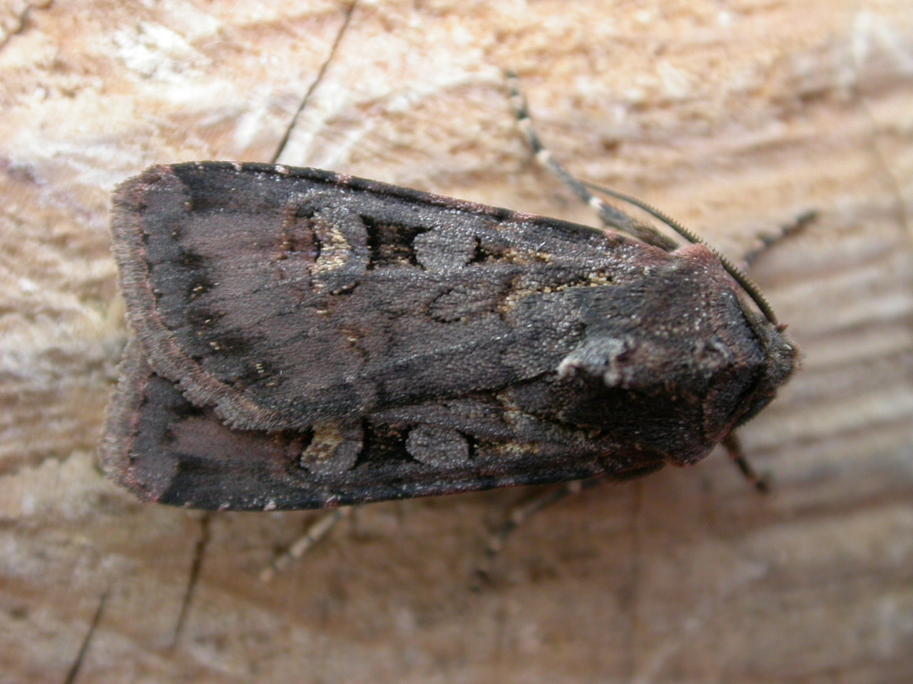 Euxoa nigricans, to MV light, Hellerup, Denmark, 5 August 2003